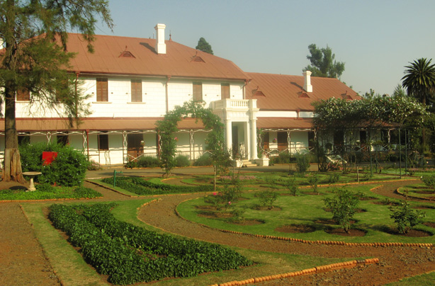 Sammy Marks Museum, Zwartkoppies, Pretoria This media shows a South African Protected Site with SAHRA file reference 9/2/258/0019.